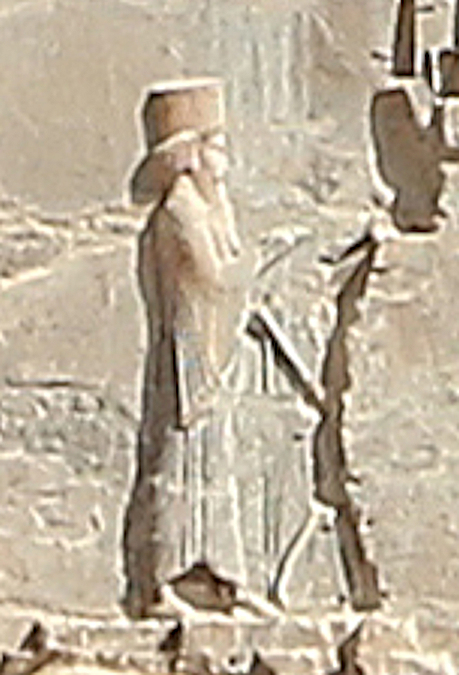 Artaxerxes II on his tomb